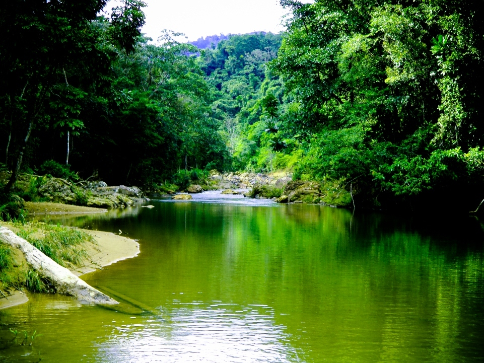 Rio Y-Y